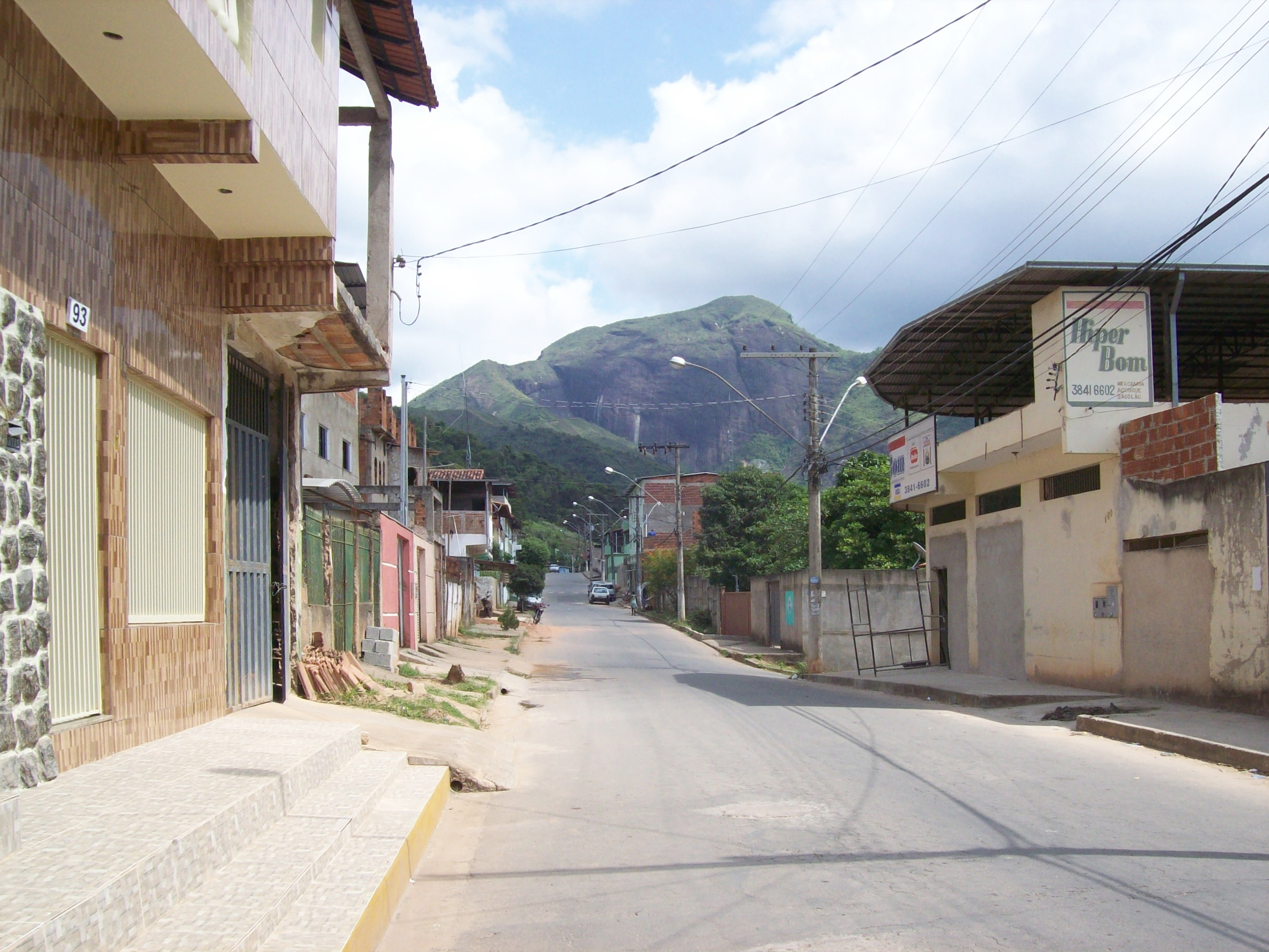 Dom Oscar Avenue in the Recanto Verde neighborhood, in Coronel Fabriciano, Minas Gerais, Brazil.